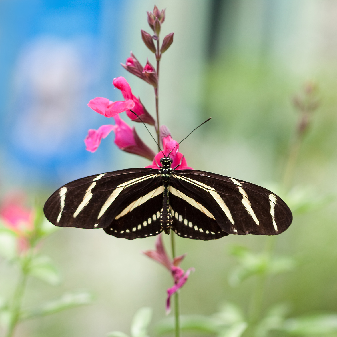 Zebra Longwing Butterfly (Heliconius charithonia) feeding from a sage flower at the Desert Botanical Garden in Phoenix, Arizona